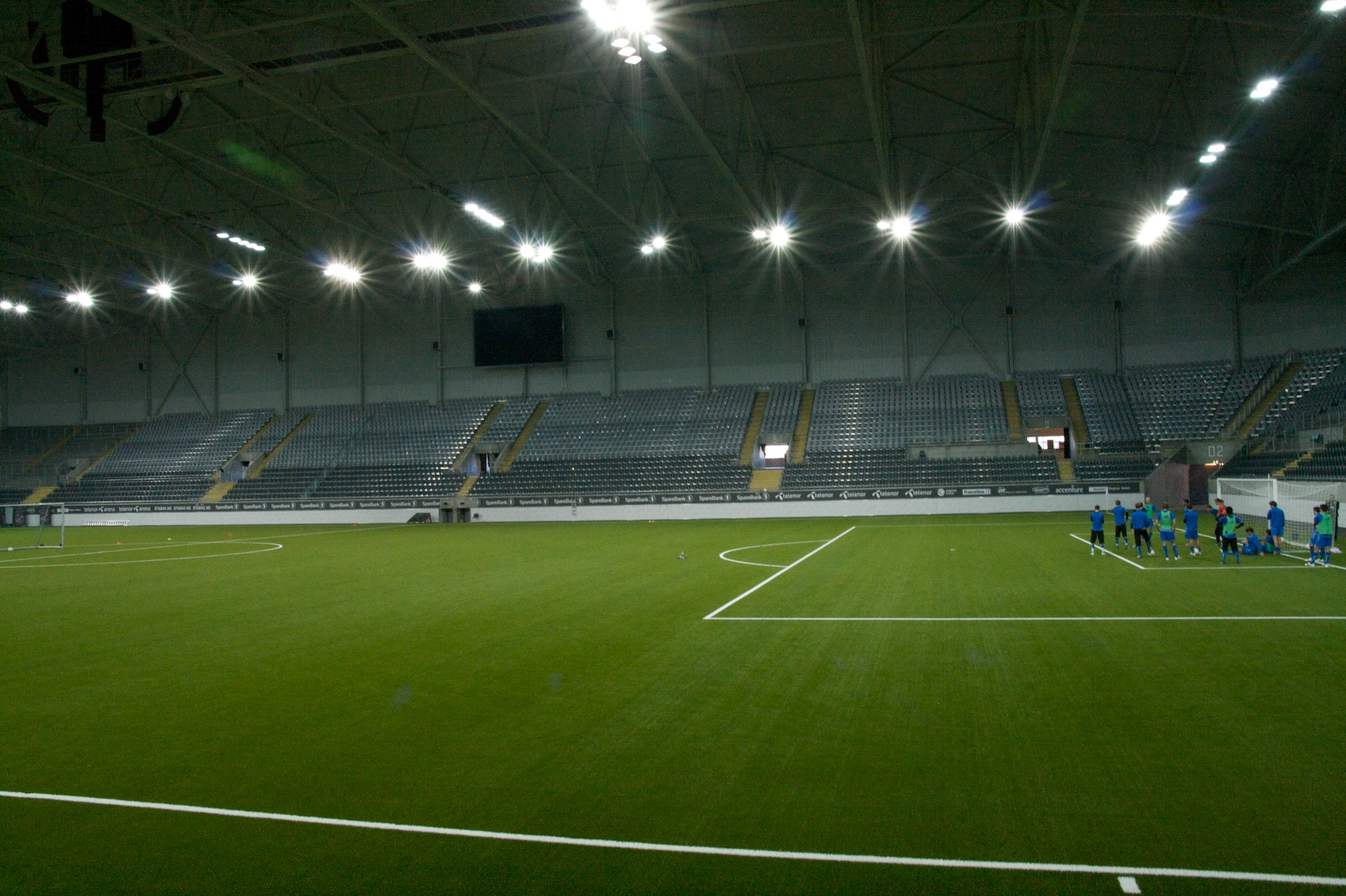 Telenor arena during a training session